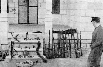 A display of weapons captured by the British Army from Arab irregulars during the revolt in Palestine. The arms were captured during a battle in and near the Palestinian town of Bani Na'im